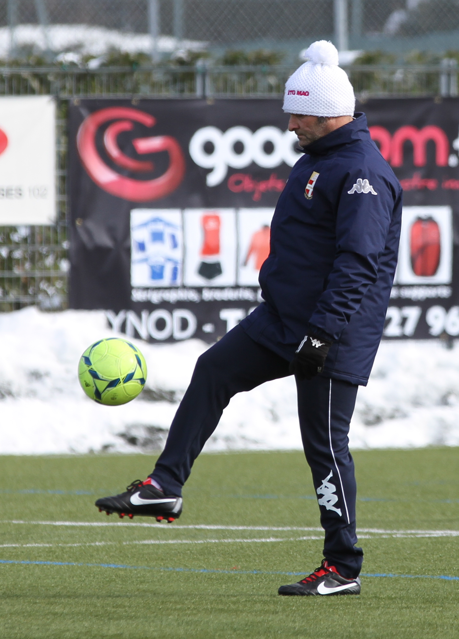 Pascal Dupraz, french player and manager